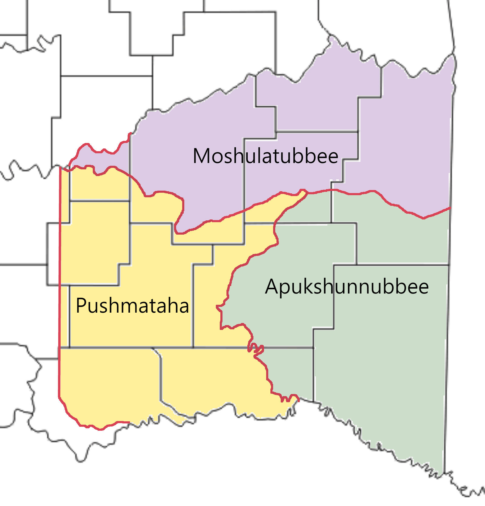 Former districts of Choctaw Nation, Indian Territory, with present-day Oklahoma counties.